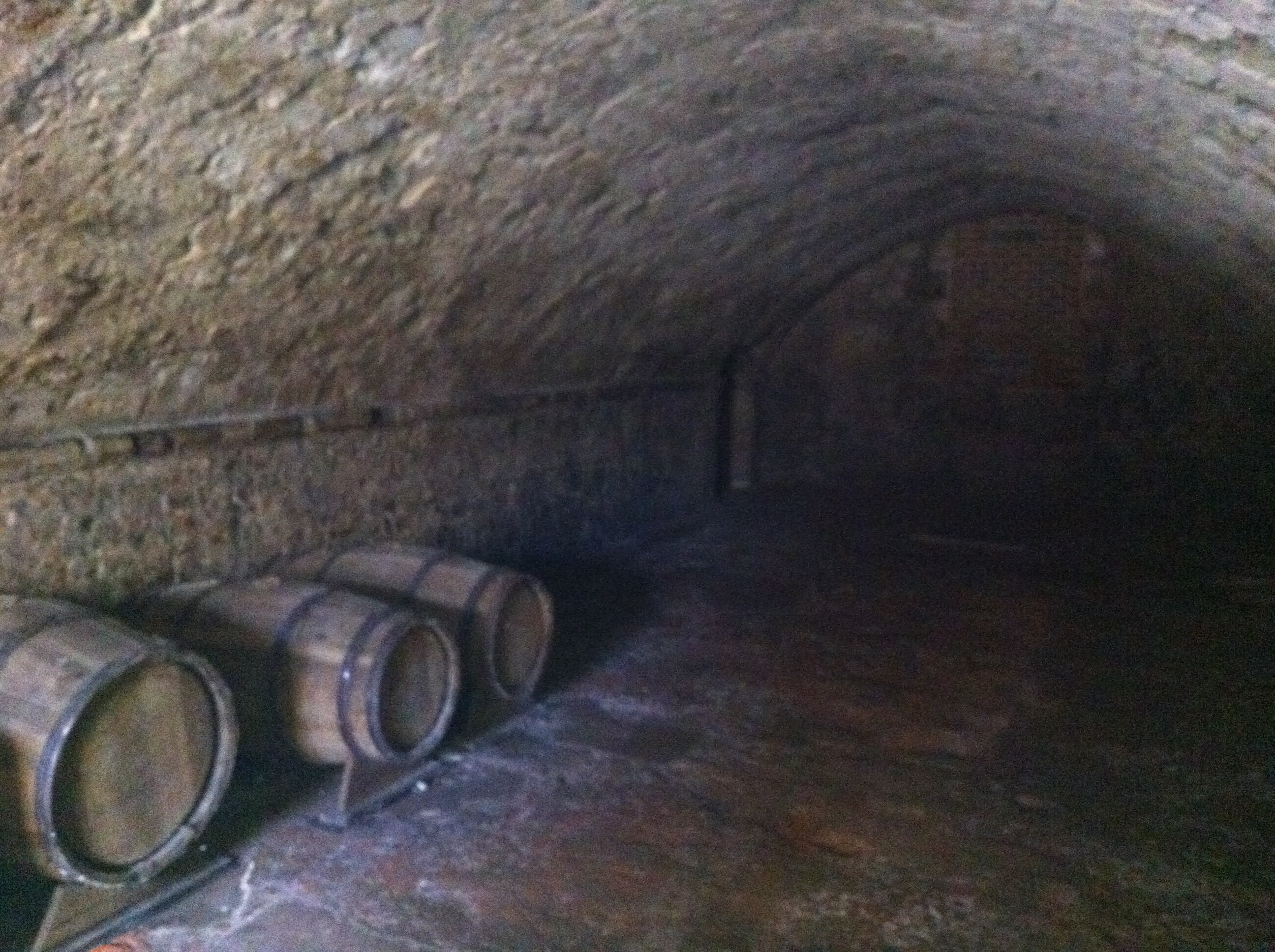 Southampton Medieval Merchants House cellar